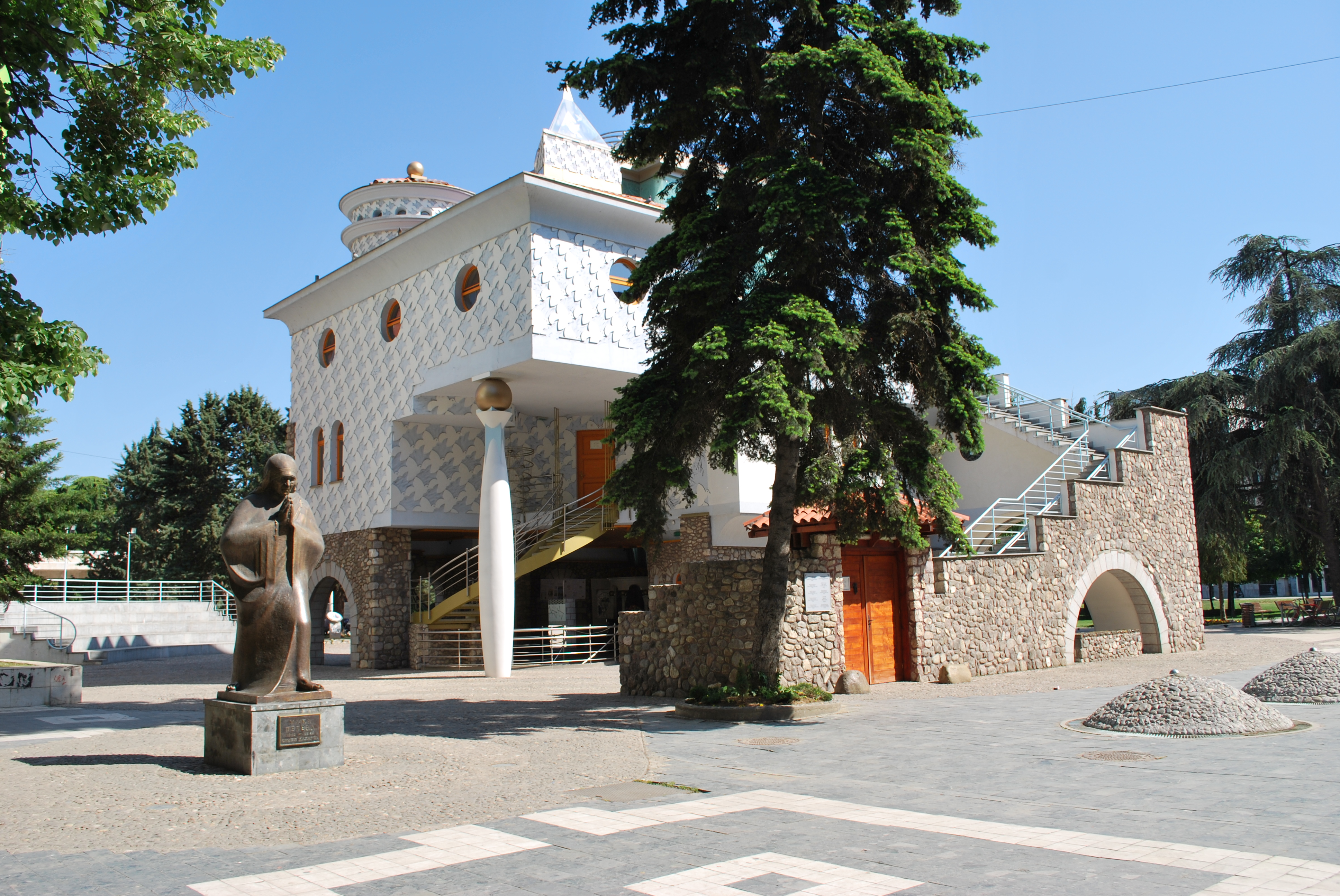 House of Mother Teresa in Skopje, Macedonia